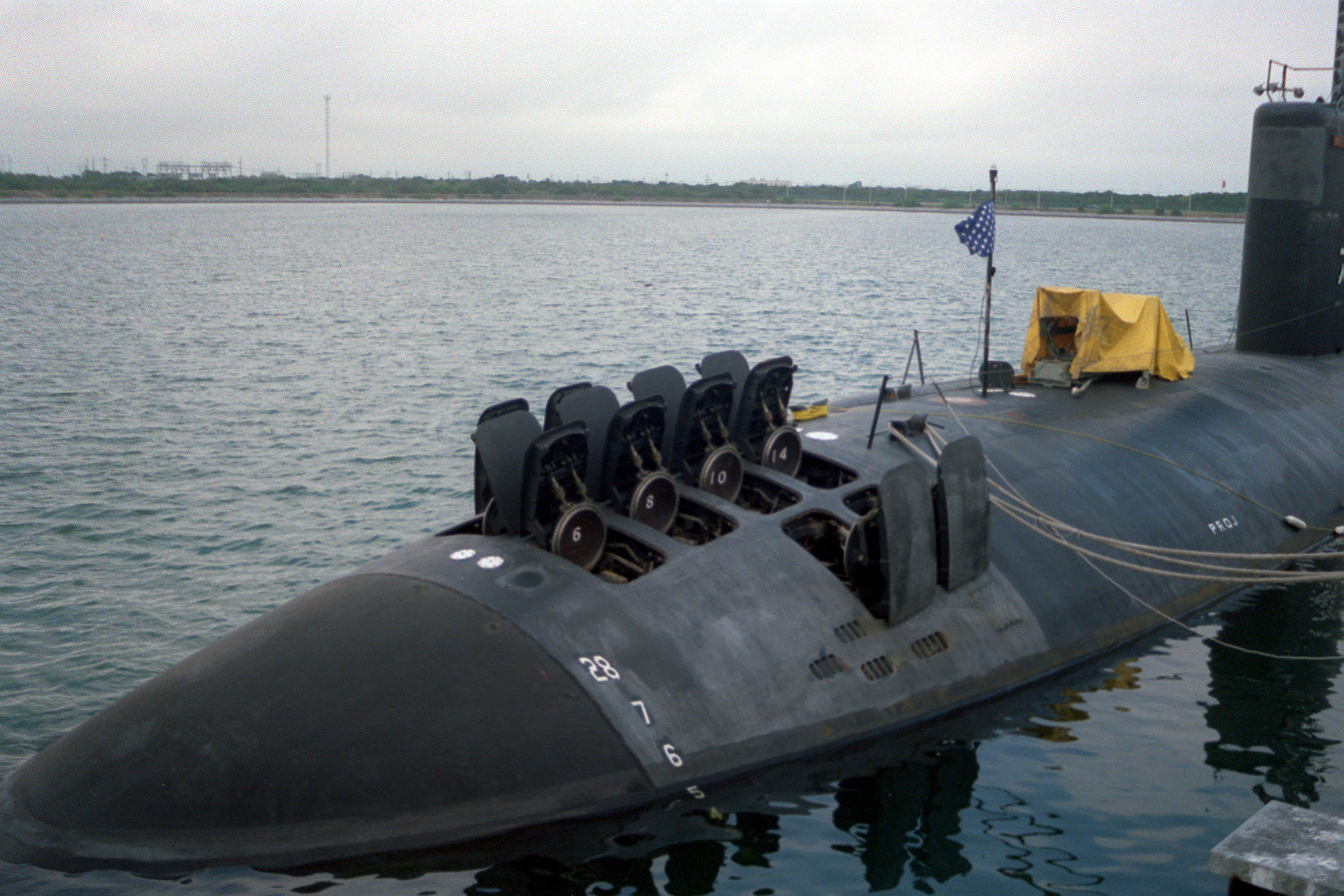 A port bow view of the fore section of the nuclear-powered attack submarine USS SANTA FE (SSN-763) tied up at the pier. The doors of the Mark 36 vertical launch system (VLS) for the Tomahawk missiles are in the open position. Location: PORT CANAVERAL, FLORIDA (FL) UNITED STATES OF AMERICA (USA). Date Shot: 13 Feb 1994. Camera Operator: OS2 JOHN BOUVIA. Service Depicted: Navy. ID:DN-SC-95-01932.